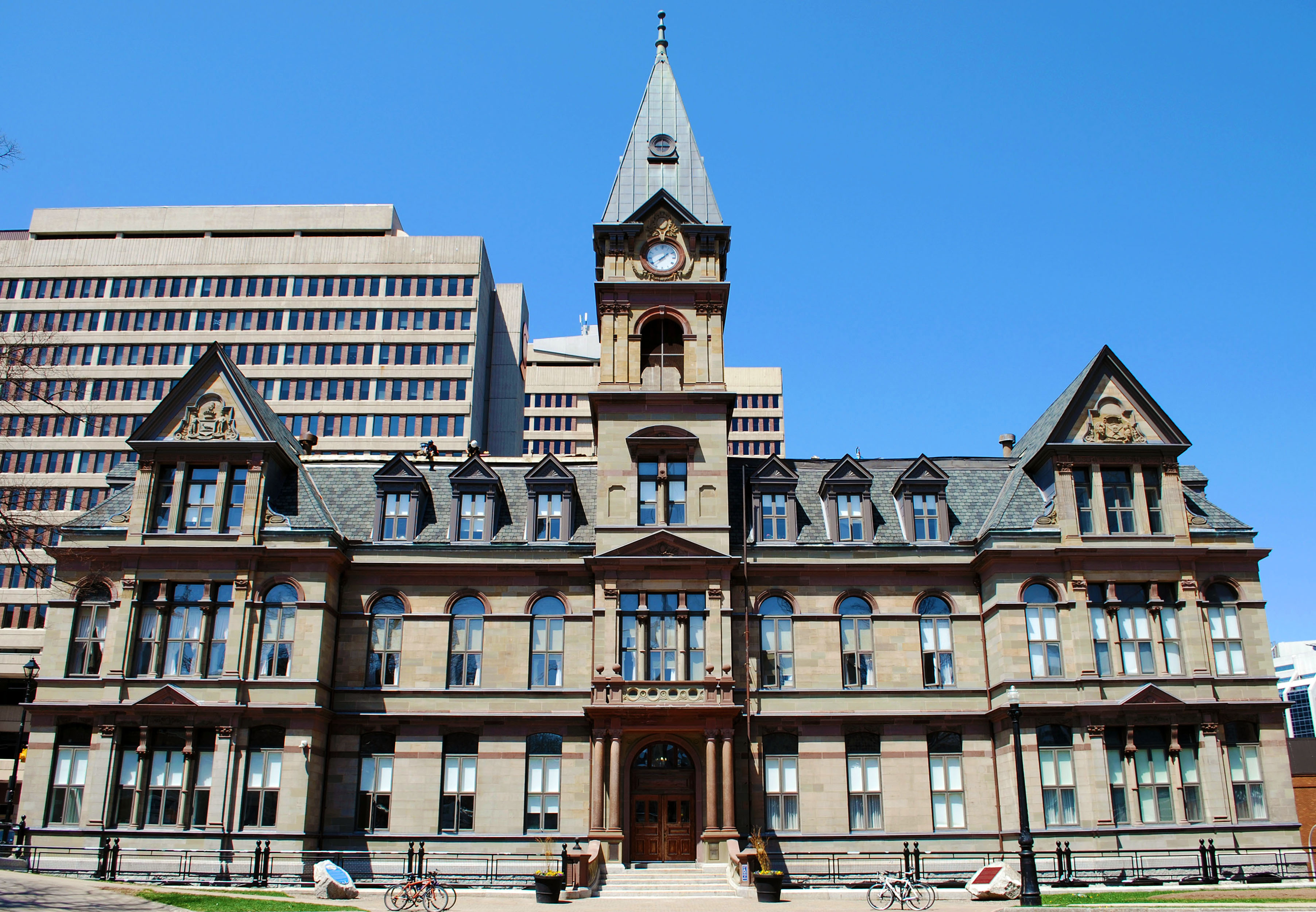 Photo of Halifax City Hall, Halifax NS, after exterior envelope renovation, where 80% of sandstone was replaced or resurfaced, dormers replaced, roof replaced with scalloped tiles that evoke the original slate roof, and copper gutter work updated and replaced.